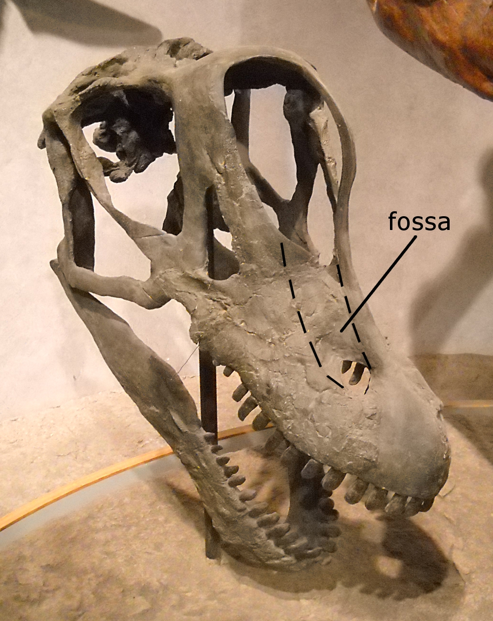 Reconstructed Felch Quarry Brachiosaurus sp. skull.